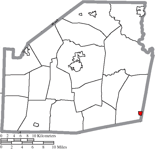 Map of the municipal and township boundaries of Highland County, Ohio, United States, as of the 2000 census, with the location of the village of Sinking Spring highlighted. Township borders are shown only in unincorporated areas in order to differentiate incorporated and unincorporated areas more clearly.